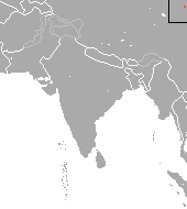 Helan Shan Pika (Ochotona argentata) range